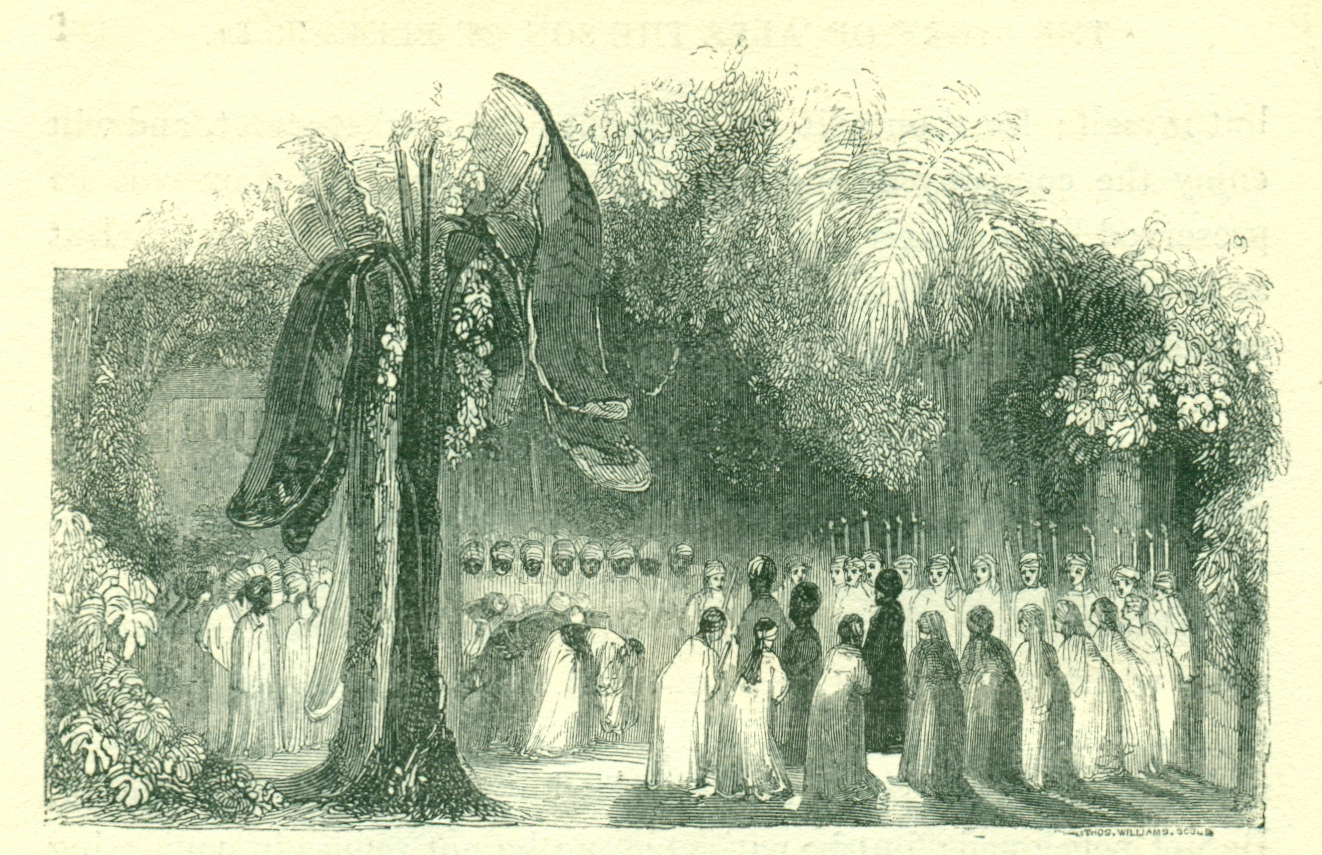 Woodcut Illustration to The Story of Alee the son of Bekkar, and Shems en-Nahr from the Arabian Nights